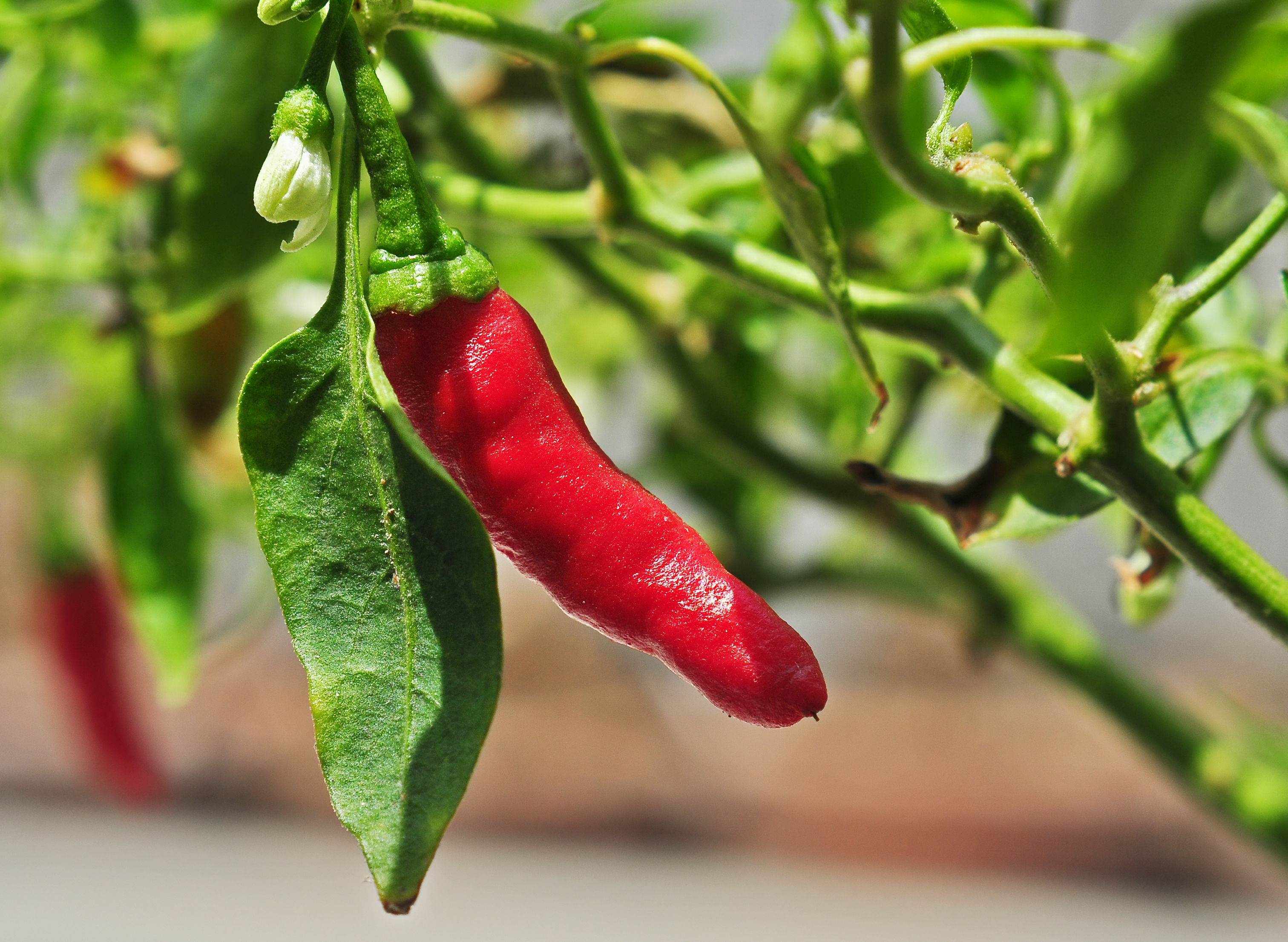 Capsicum frutescens. Taken at Burdwan, West Bengal, India.